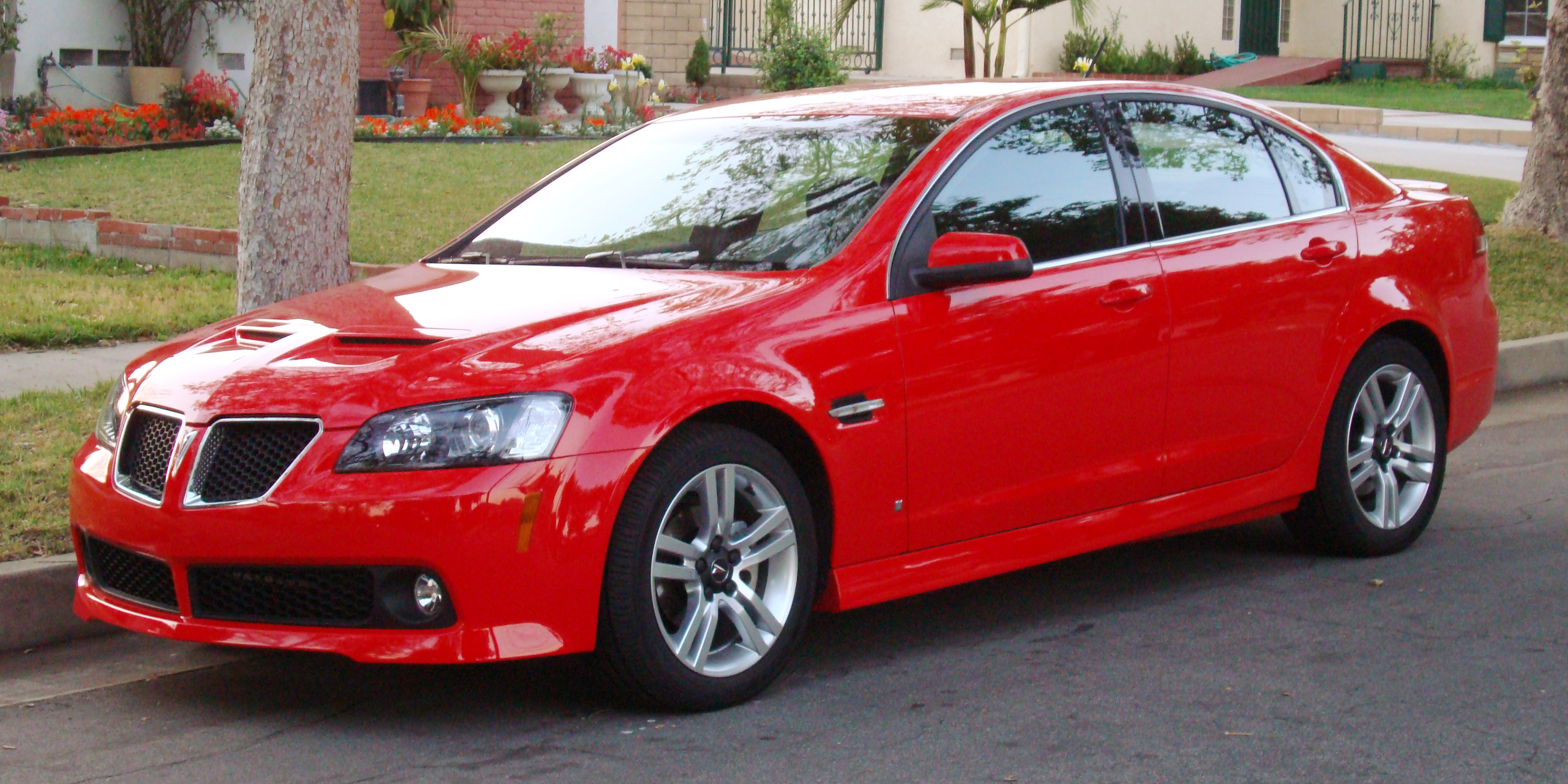 2008 Pontiac G8. Camera used was a Sony Cyber-shot DSC-W200.